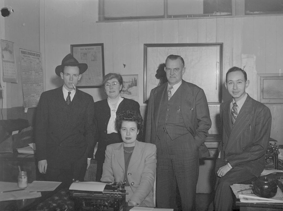 We see the employees of the editorial office of the newspaper "The Monitor".